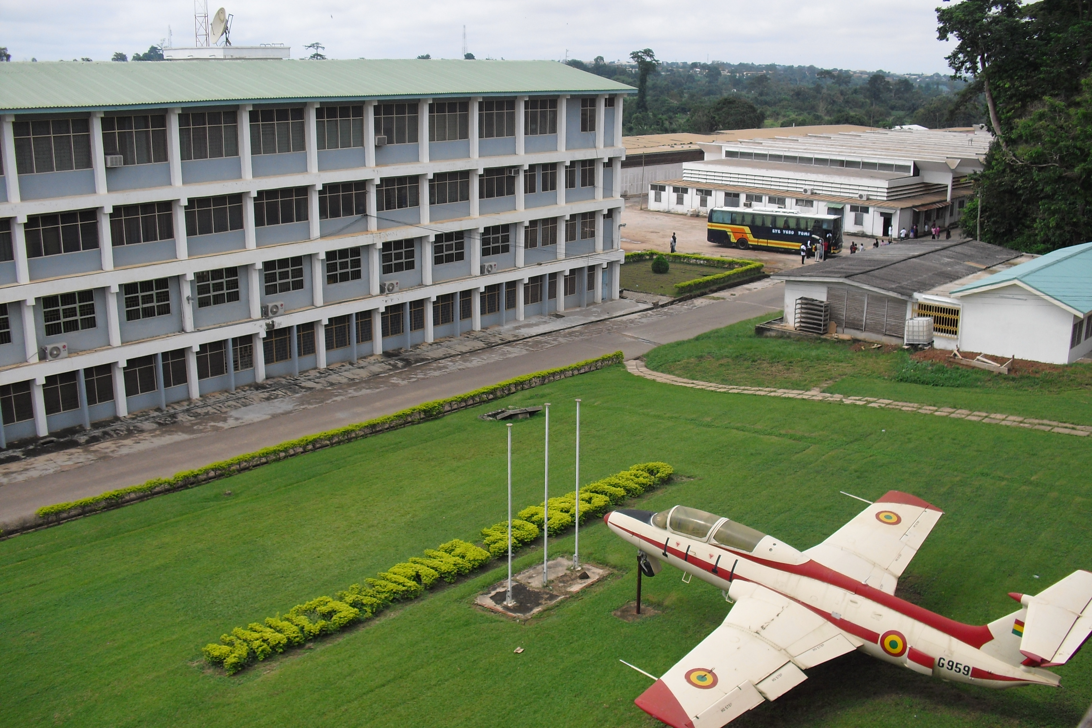 One of the lab/office block of the College of Engineering at KNUST, Kumasi